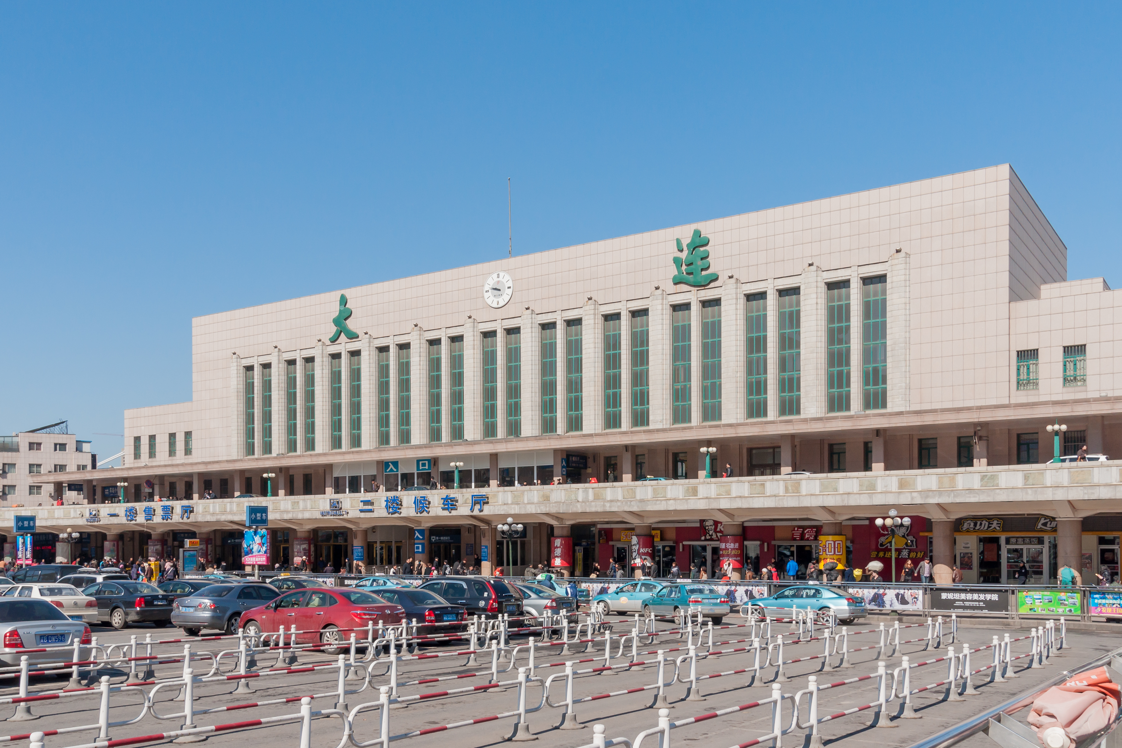 Dalian, Liaoning, China: Dalian Railway Station